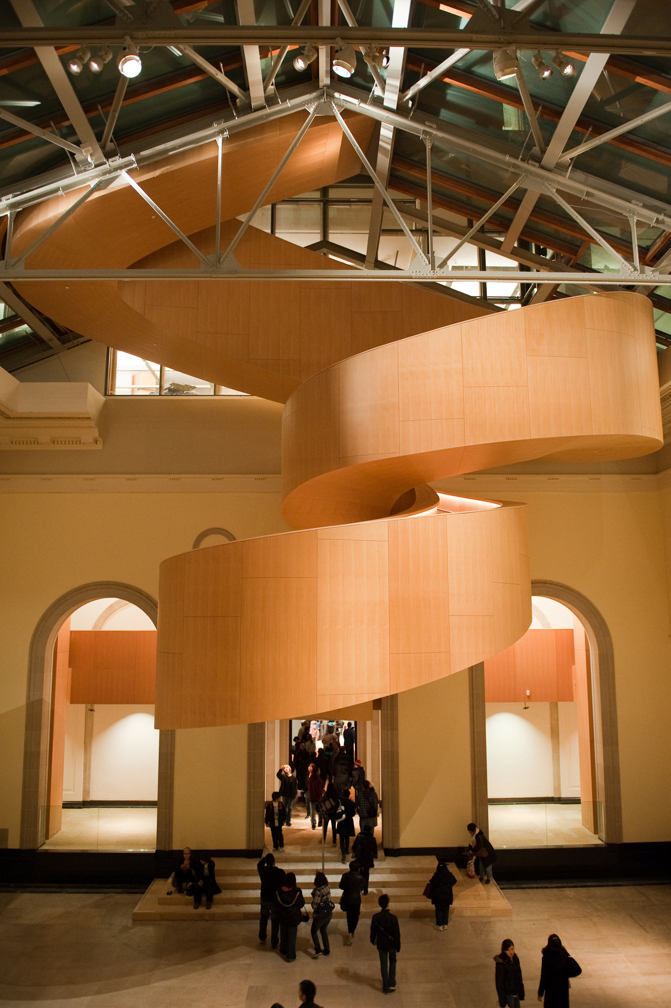 Frank Gehry-designed spiral staircase in the Walker Court of the Art Gallery of Ontario. Toronto, Canada.